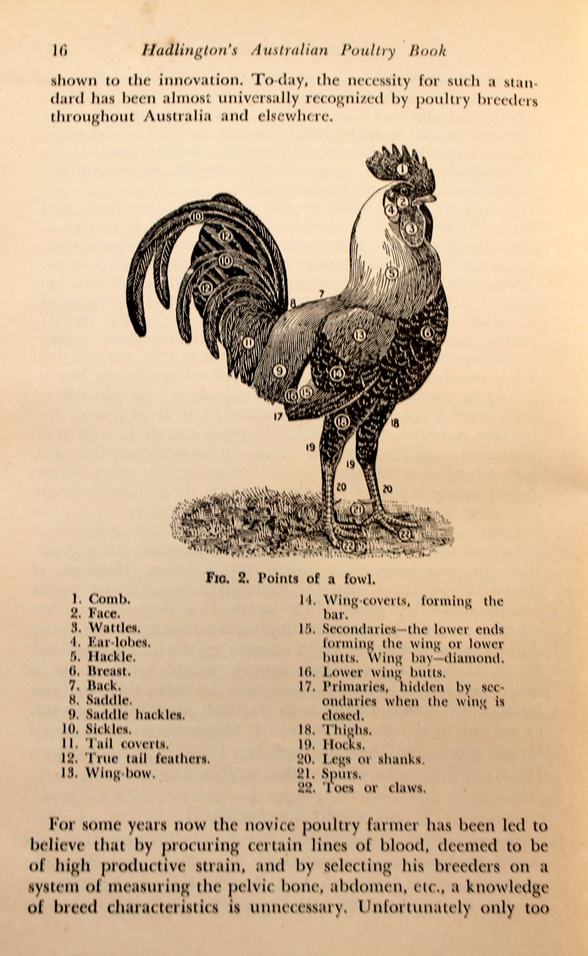 Hadlington's Australian poultry book[1], Angus & Robertson, 1943